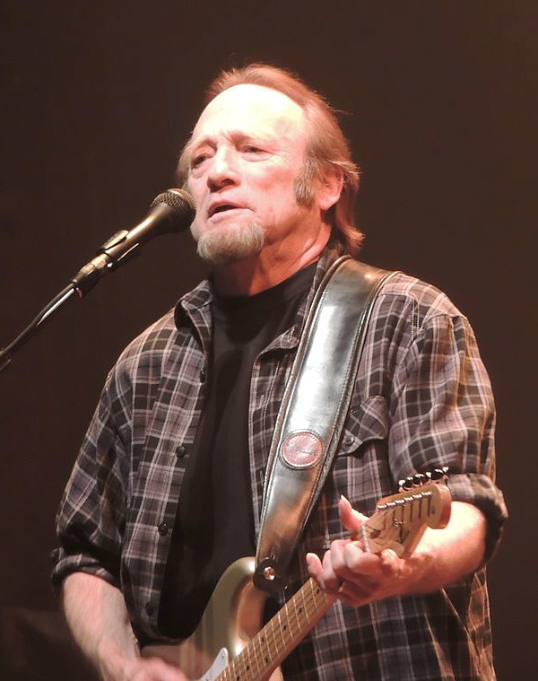 Stephen Stills at the Beacon Theatre, New York City, on 2012-10-22